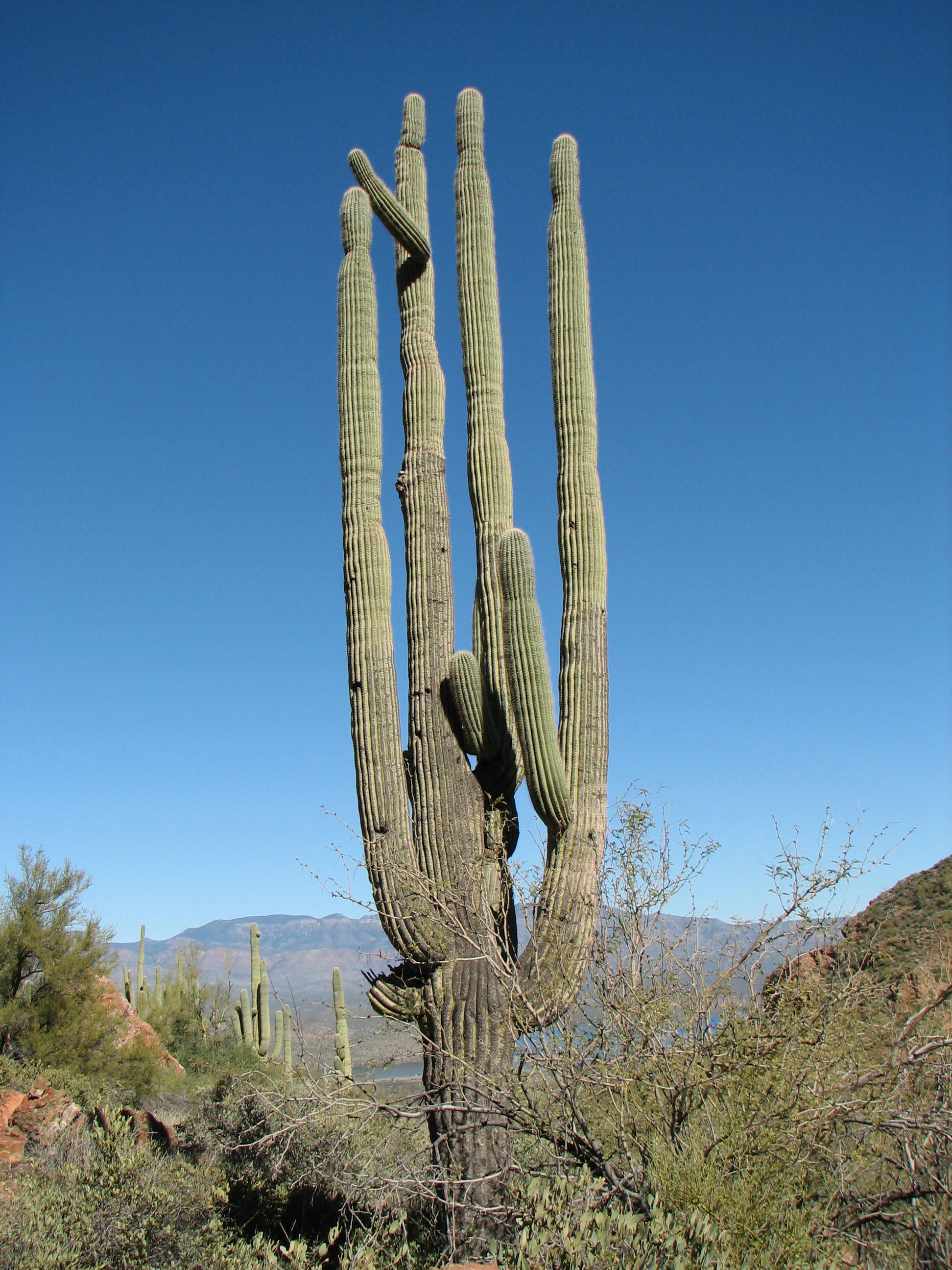 Saguaro (Carnegiea gigantea), Tonto National Forest, Arizona, United States